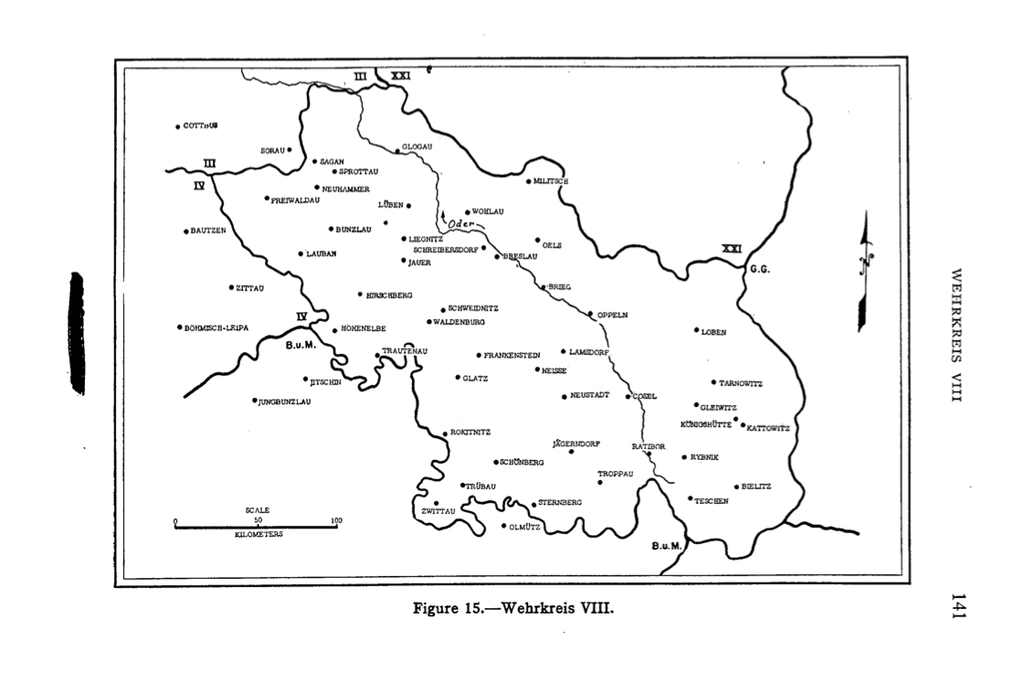 Map of the Wehrkreis, Military District, VIII.